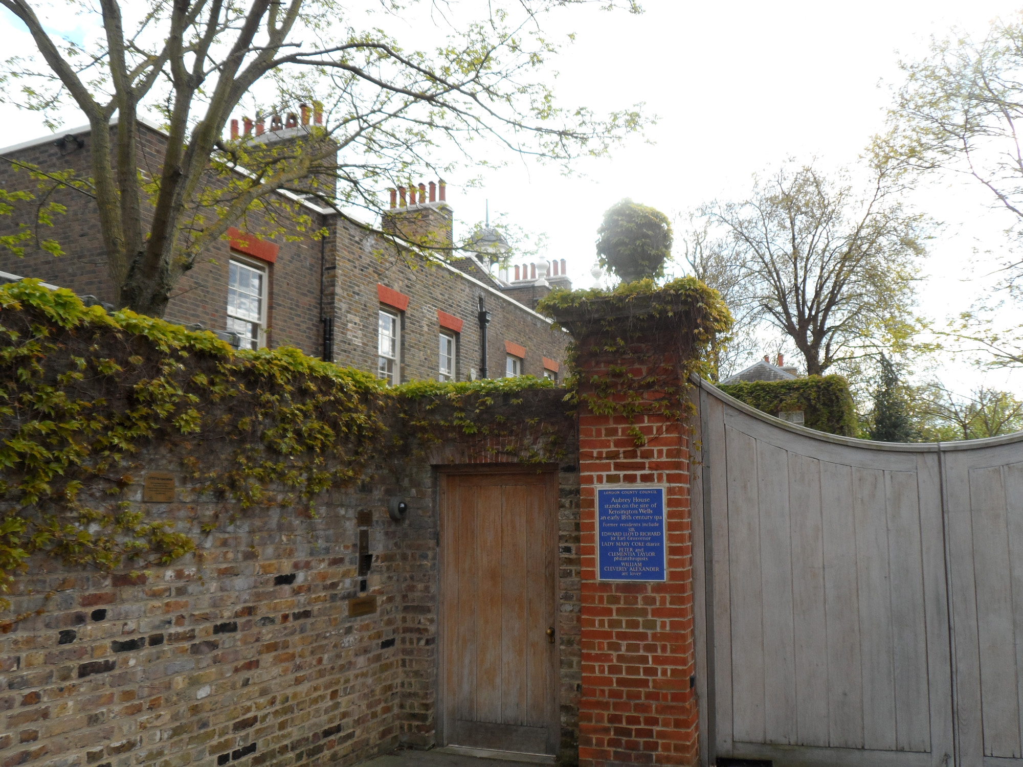 Aubrey House stands on the site of Kensington Wells an early 18th century spa Former residents include SIR EDWARD LLOYD RICHARD 1st Earl Grosvenor LADY MARY COKE diarist PETER and CLEMENTIA TAYLOR philanthropists WILLIAM CLEVERLY ALEXANDER art lover